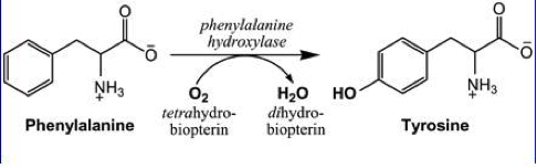 Conversion to tyrosine